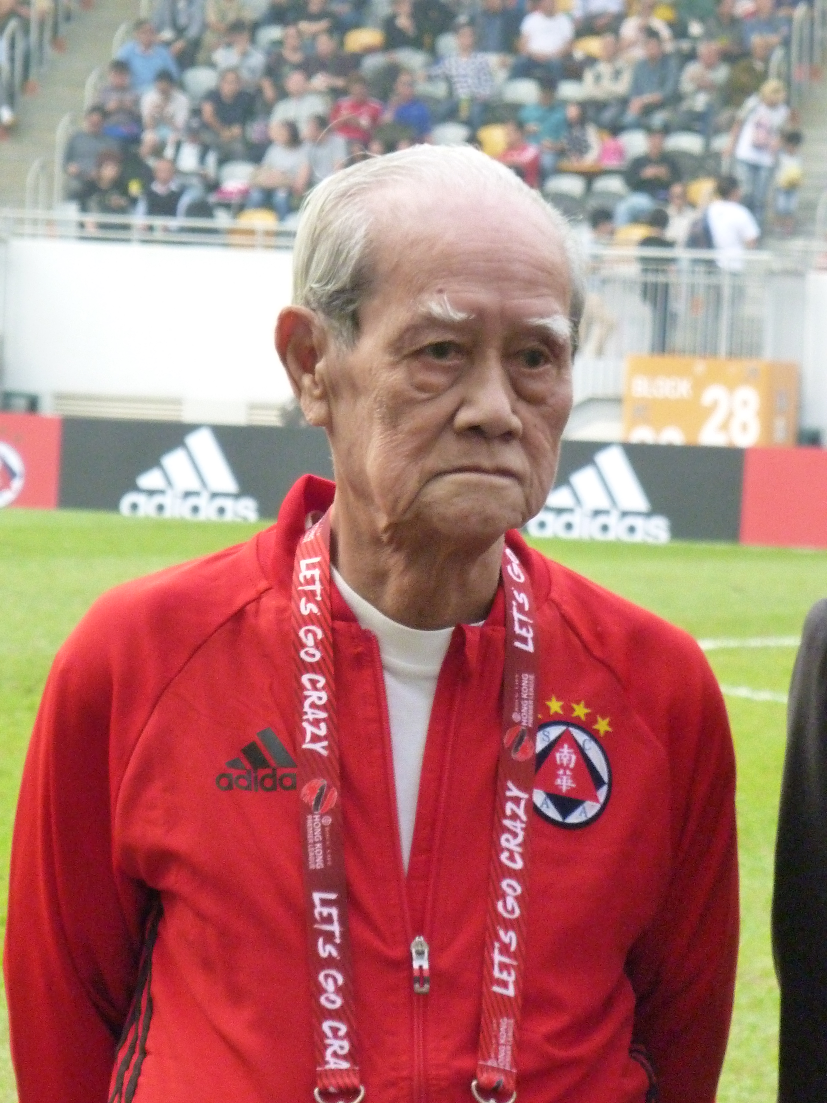 Mok Chun Wah (4 Dec 2016, Hong Kong Premier League, South China vs Yuen Long, Mongkok Stadium) 中文（香港）: 莫振華 (4 Dec 2016, 香港超級聯賽, 南華 vs 元朗, 旺角大球場)